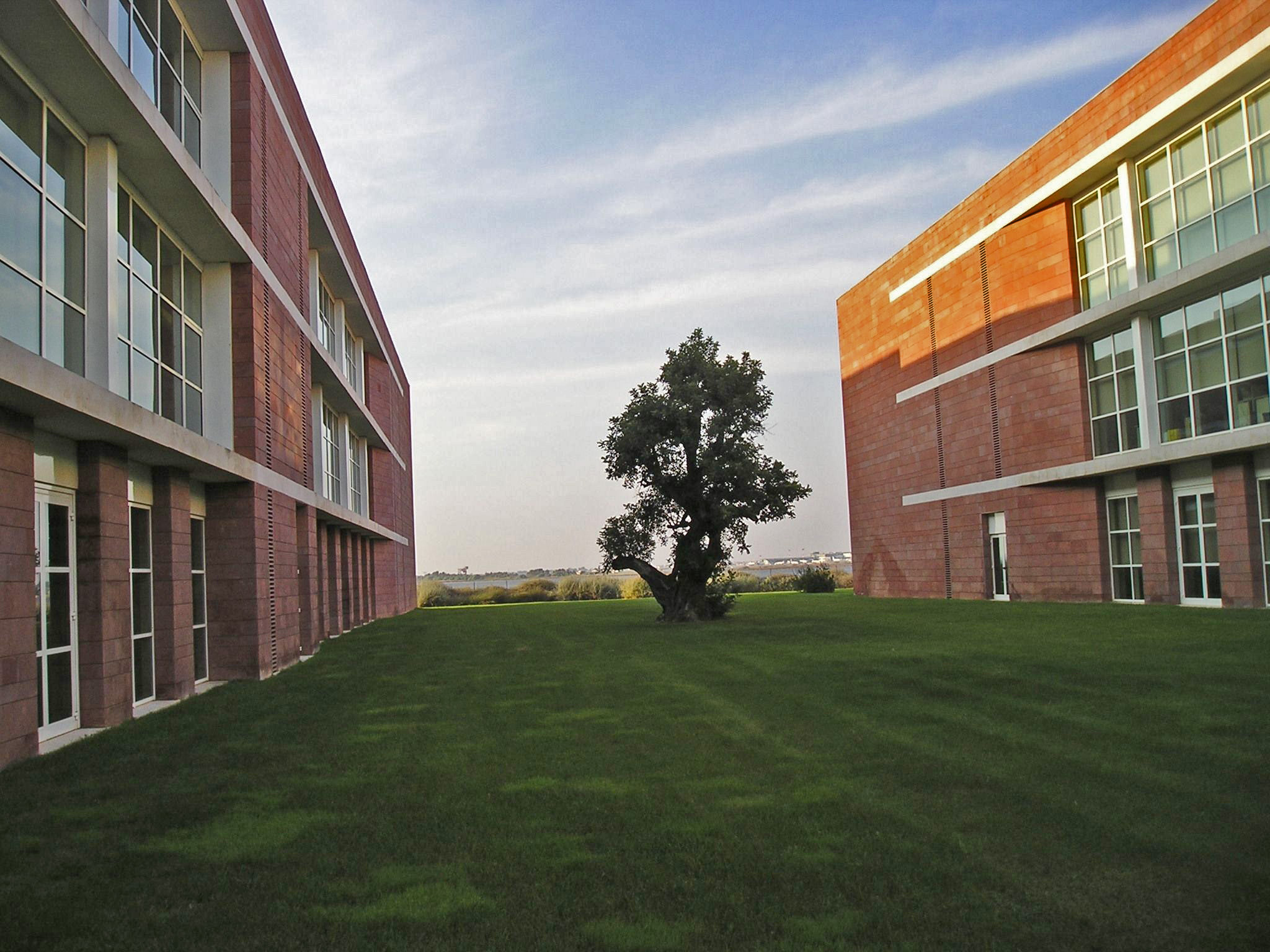 Tiscali s.p.a. (BIT: TIS) is an Italian telecommunications company, based in Cagliari, Sardinia, that provides internet and telecommunications services to its domestic market. It previously had operations in other European nations through its acquisition of many smaller European Internet Service Providers (ISPs) in the late 1990s, but in subsequent years these have been divested.